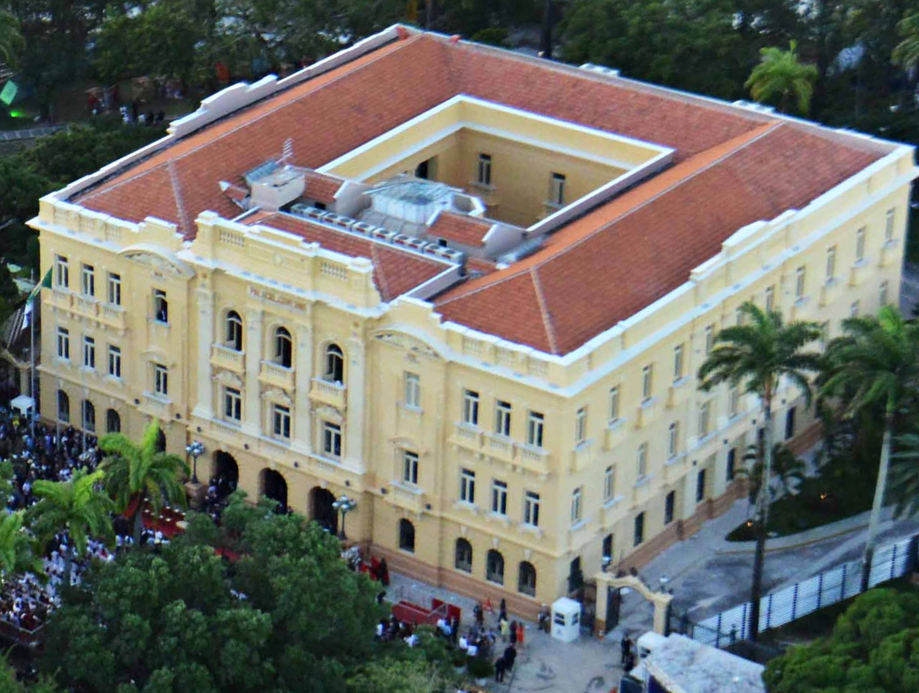 Princesses Field Palace - Recife, Pernambuco, Brazil